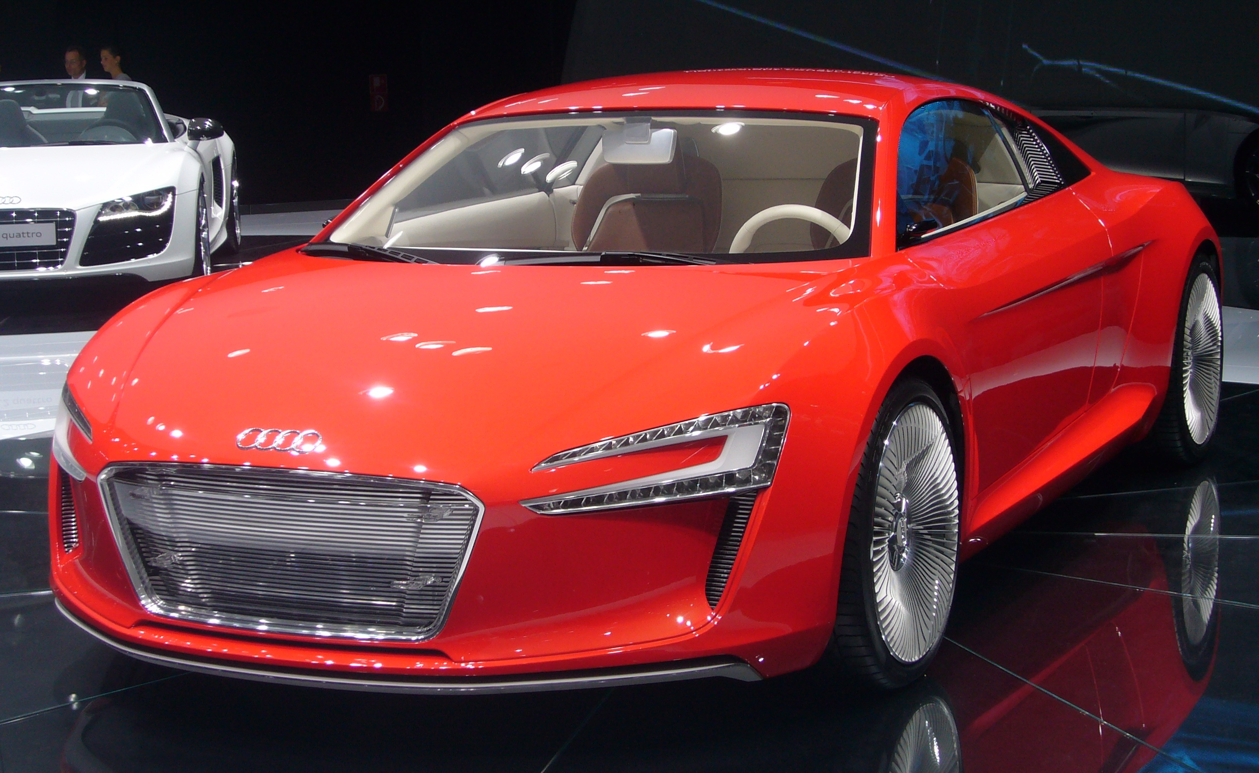 Audi e-tron Concept at IAA Frankfurt 2009